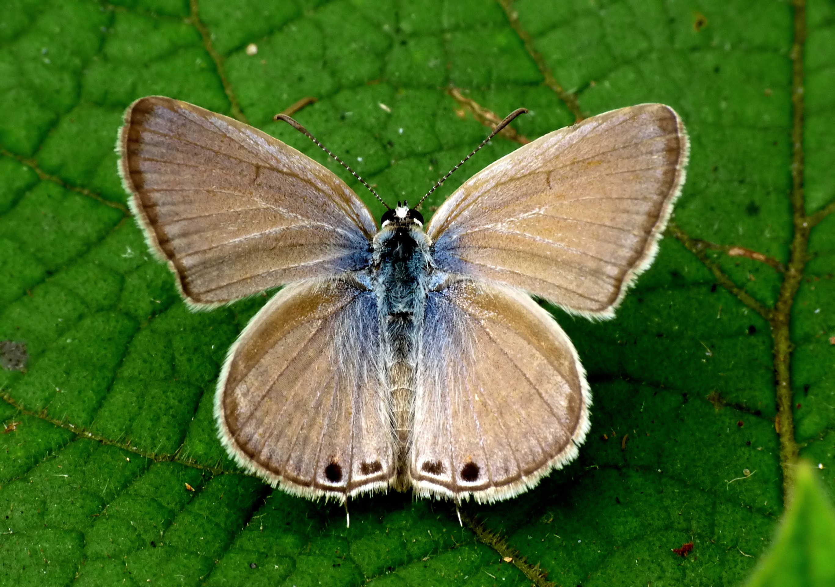 The Gram Blue (Euchrysops cnejus) is a small butterfly found in India that belongs to the Lycaenids or Blues family. Taken at Kadavoor, Kerala, India